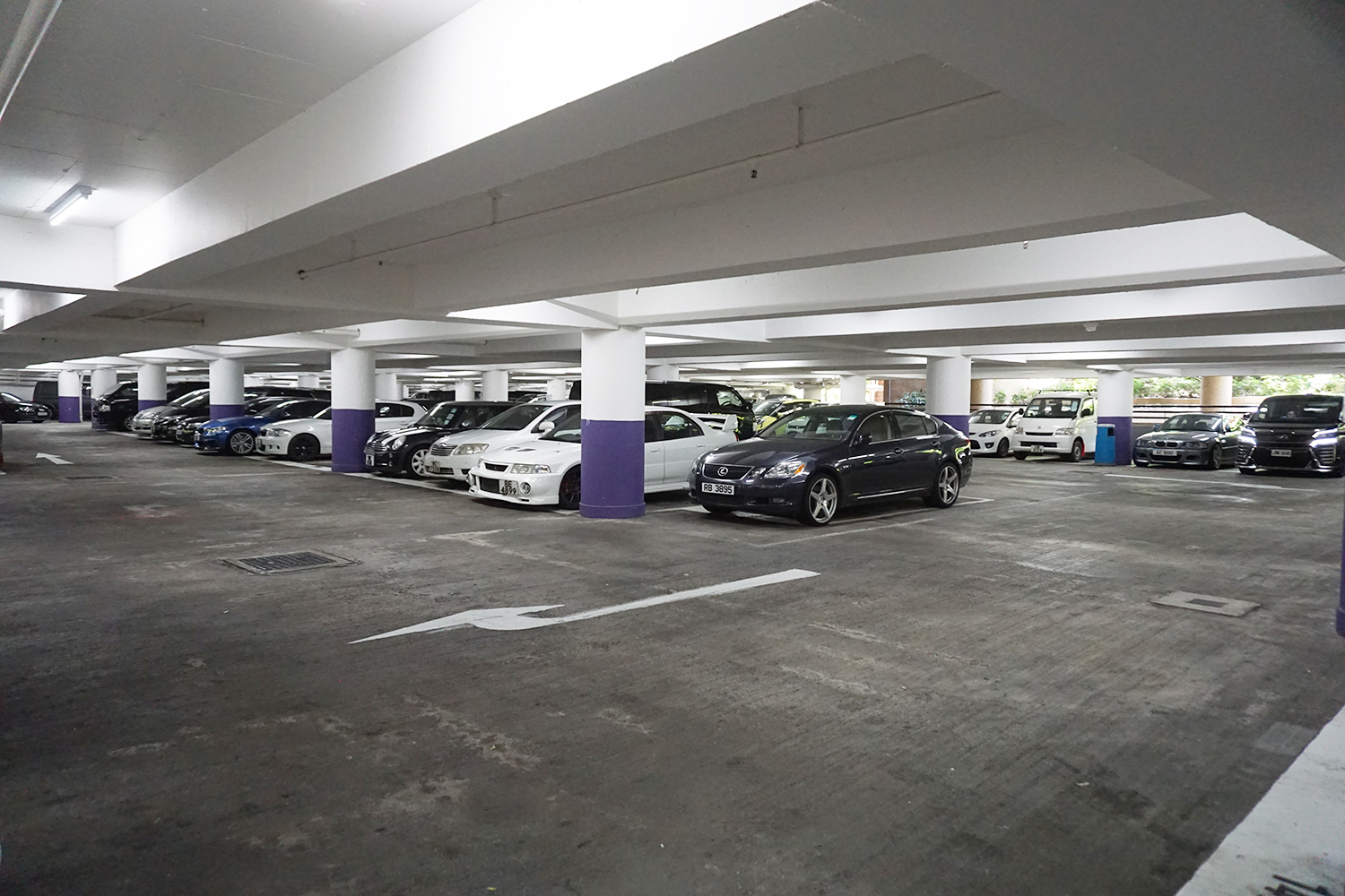 Tin Yiu Estate in Tin Shui Wai, Hong Kong.